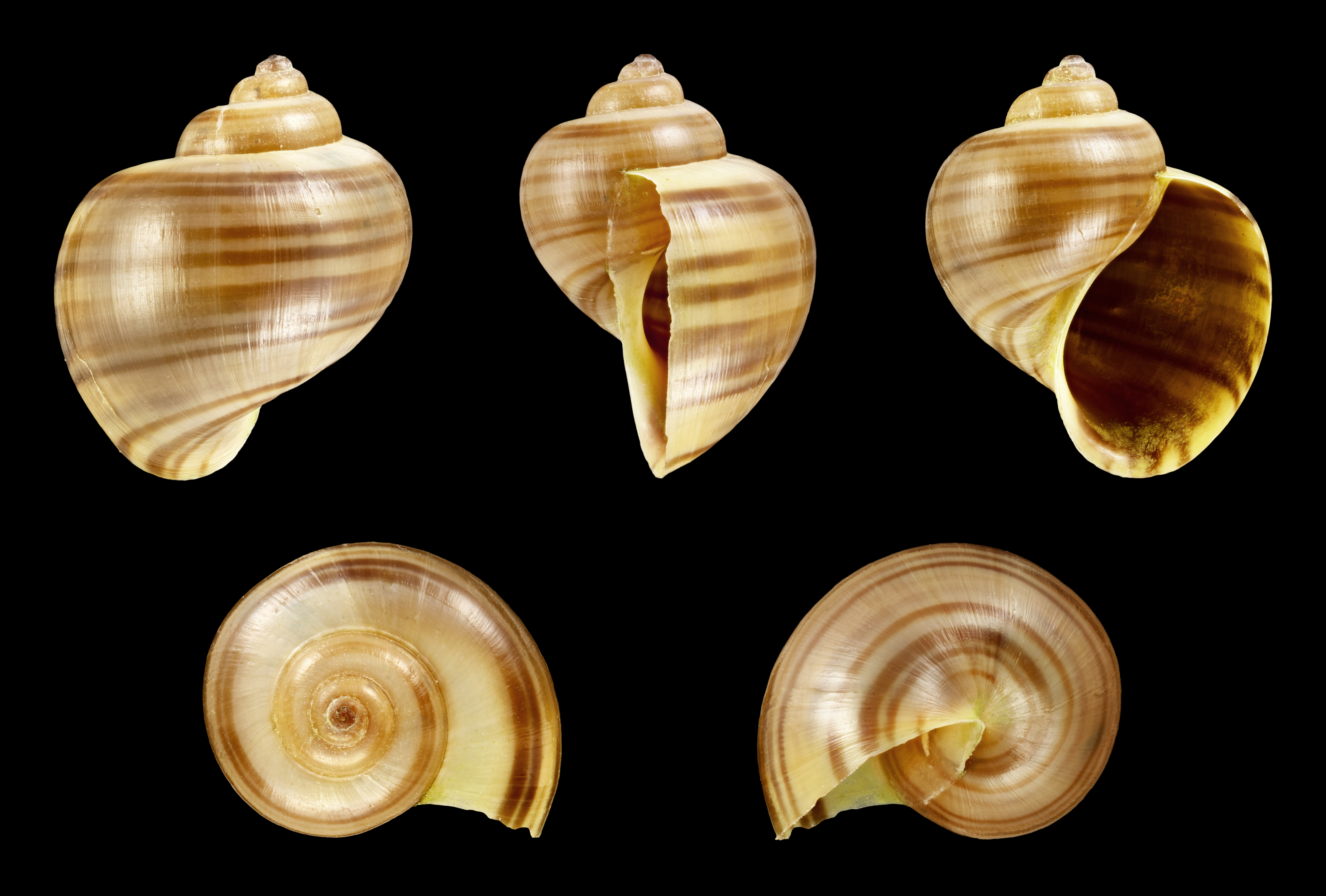 Pomacea diffusa Blume, 1957, Spike-topped Apple Snail, banded form; Length 2.3 cm; Aquarium breeding; Natural distribution: Amazon Basin. Shell of own collection, therefore not geocoded.